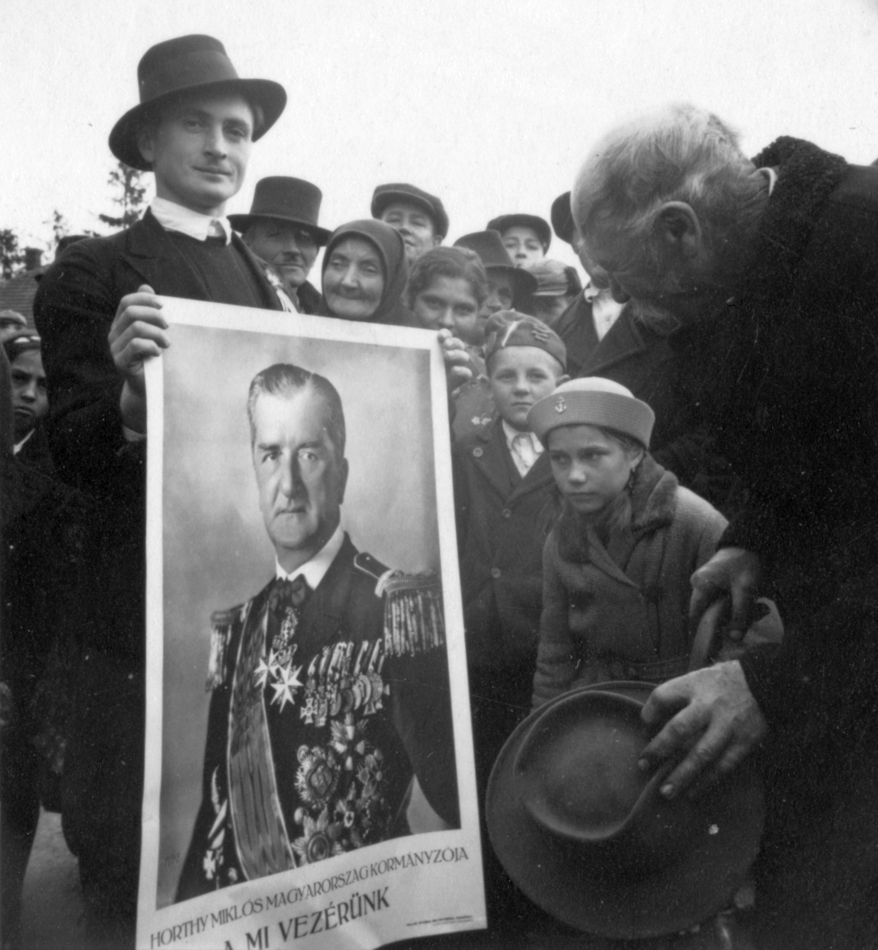 Hungarian people with a poster of Miklós Horthy